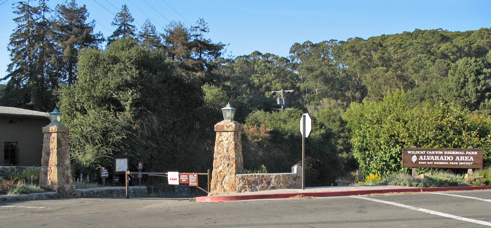 National Register of Historic Places listings in Contra Costa County, California. Alvarado Park, Junction of Marin and Park Aves., Richmond, California, USA. Photographed 2008-09-21 from the south side of Park Ave. at the intersection with McBryde Ave.